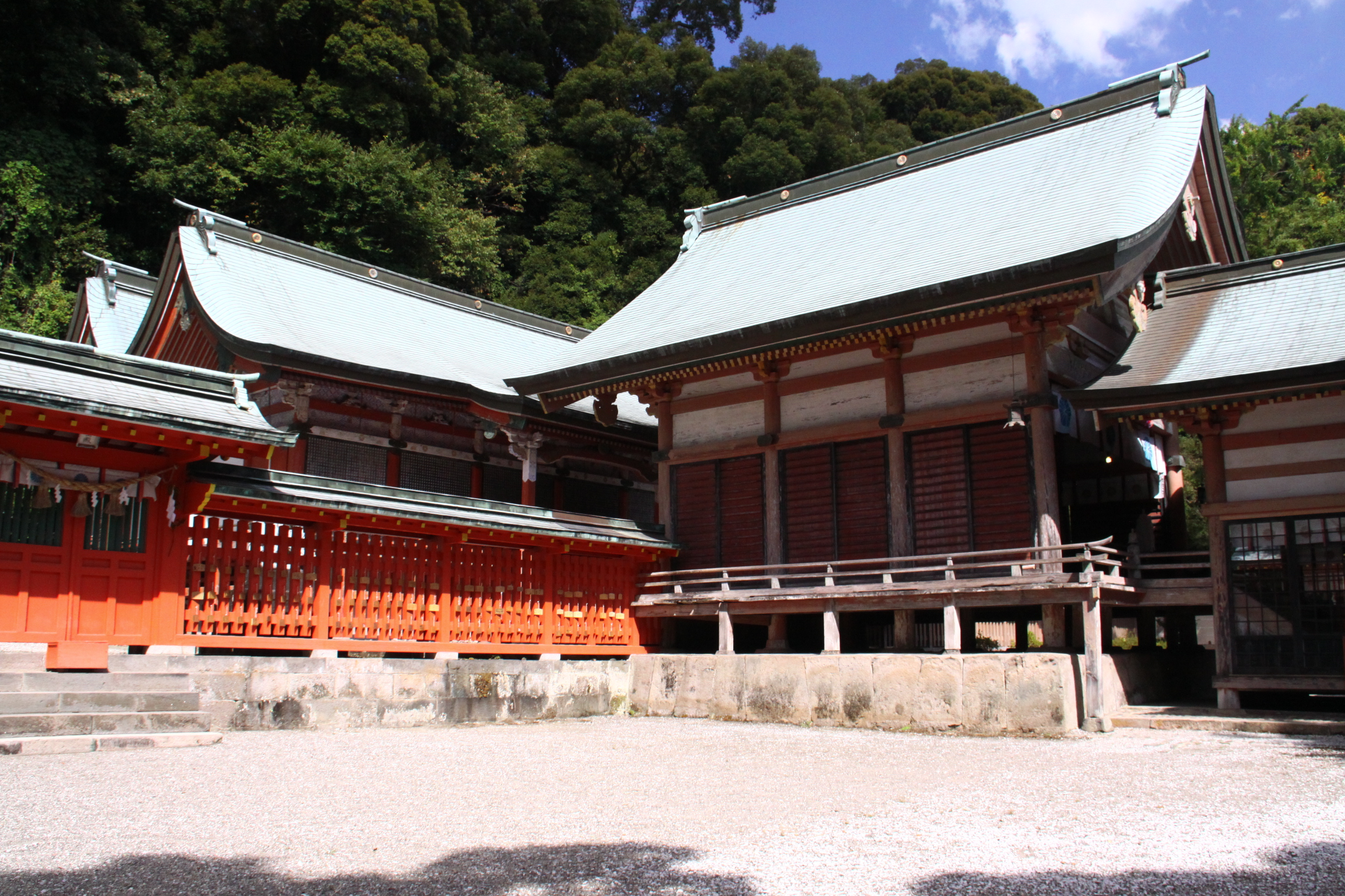 Yusuharahachimangu Shaden